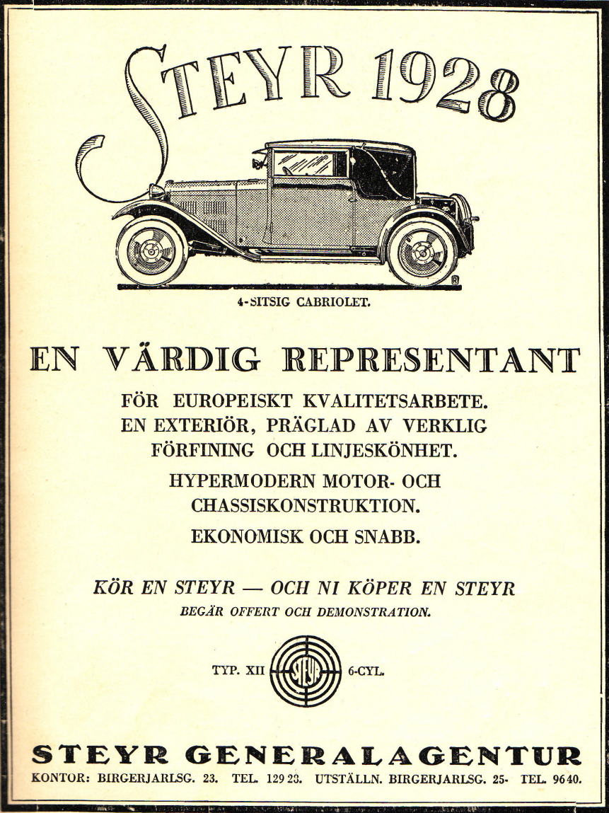 Ad in the swedish monthly novelmagazine "Bonniers NovellMagasin" number 5 1928 by the retailer Stey Generalagentur in Stockholm.